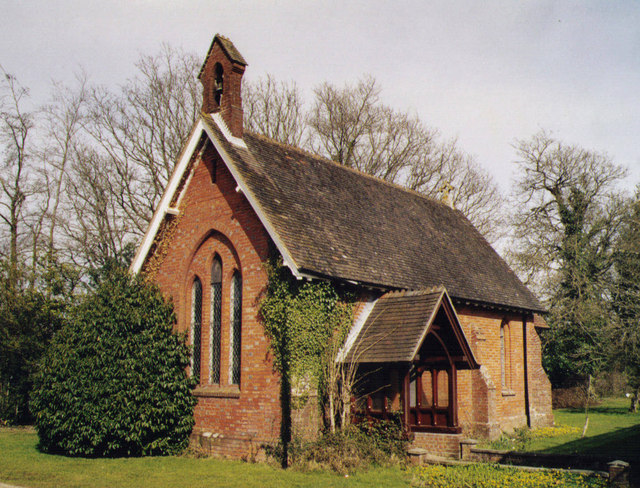 Former Workhouse Chapel, Ashhurst Built in 1874 as a Workhouse Chapel and later used by the Hospital.